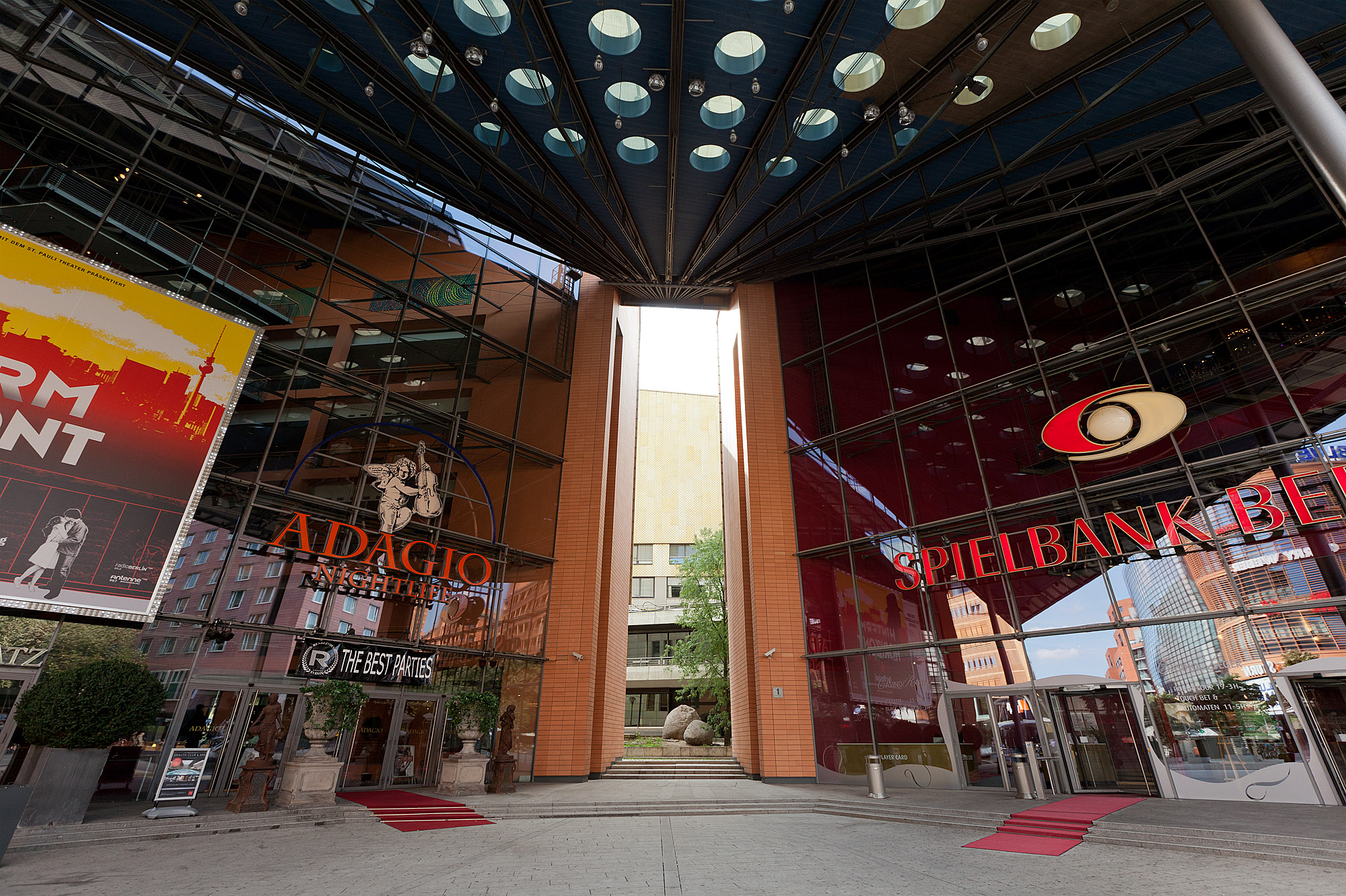 The gap between the Theater am Potsdamer Platz and the Spielbank Berlin at the Marlene-Dietrich-Platz in Berlin, through which the rear of the Staatsbibliothek zu Berlin is visible.